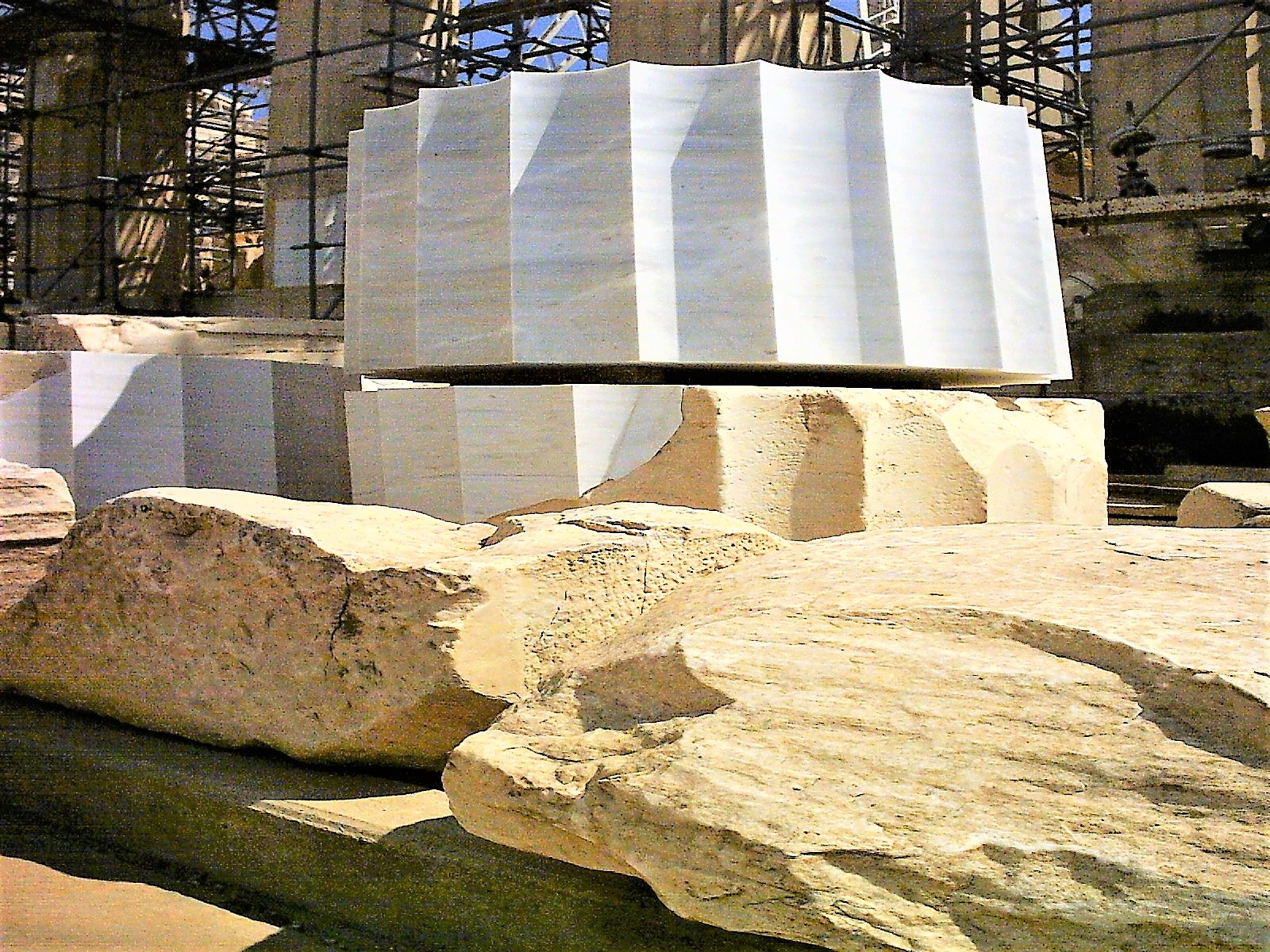 Segments of a column, partly new marble, at Athens’ Acropolis. April 2005.